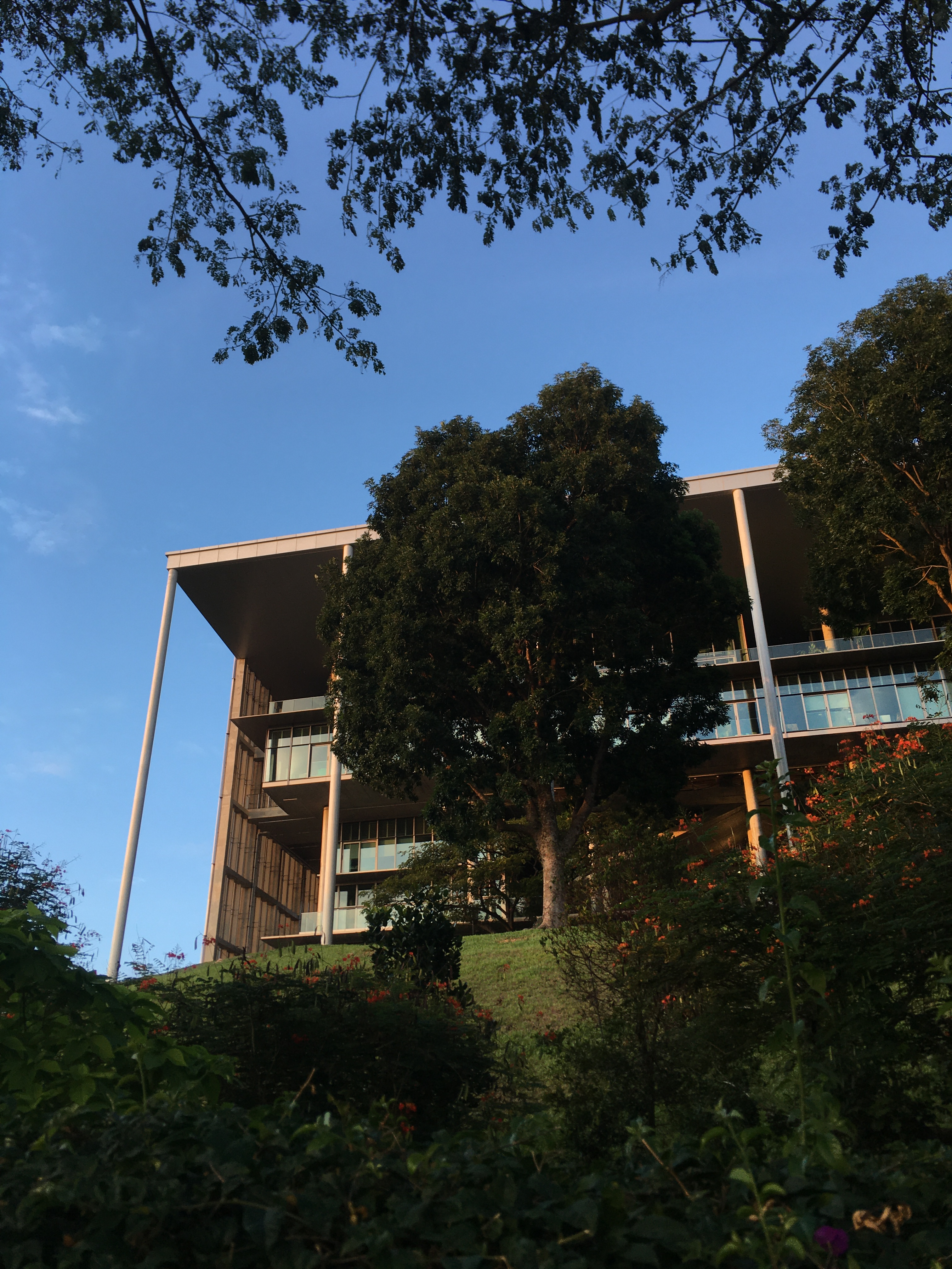 The SDE4 building of the National University of Singapore's School of Design and Environment.